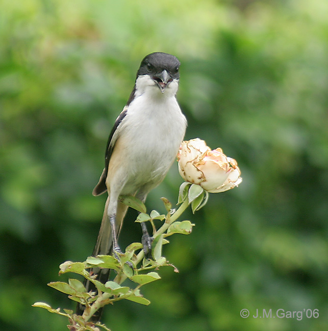 Long-tailed Shrike (Lanius schach) in Kolkata, West Bengal, India.